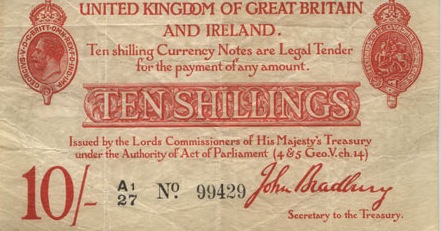 Observe side of ten-shilling banknote